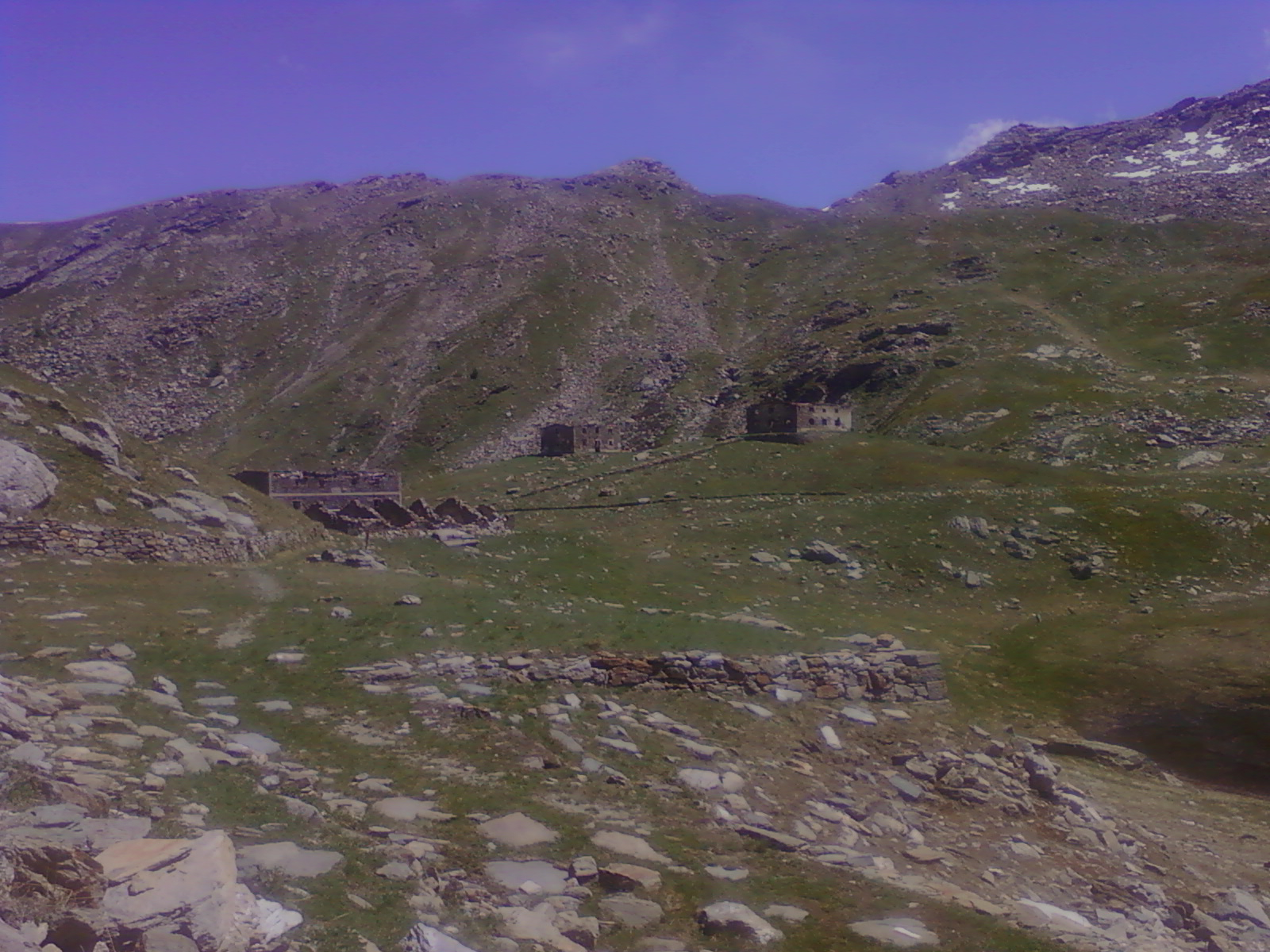 A picture of the Altopiano dei Tredici Laghi, a small plateau located in the Cottian Alps, Italy, near Prali. In the photo, some dismissed barracks.